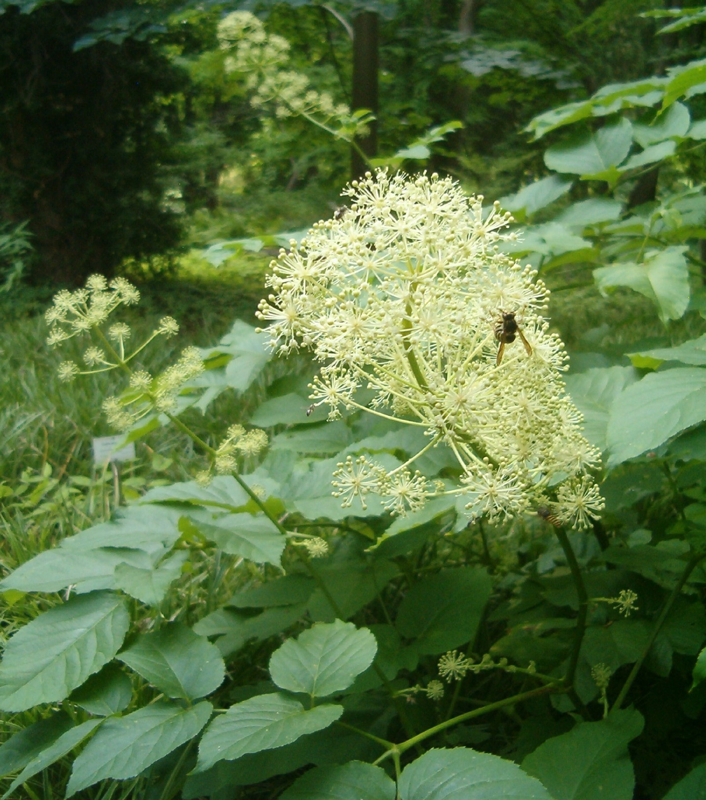 At Botanical Gardens Berlin-Dahlem Species Aralia cordata